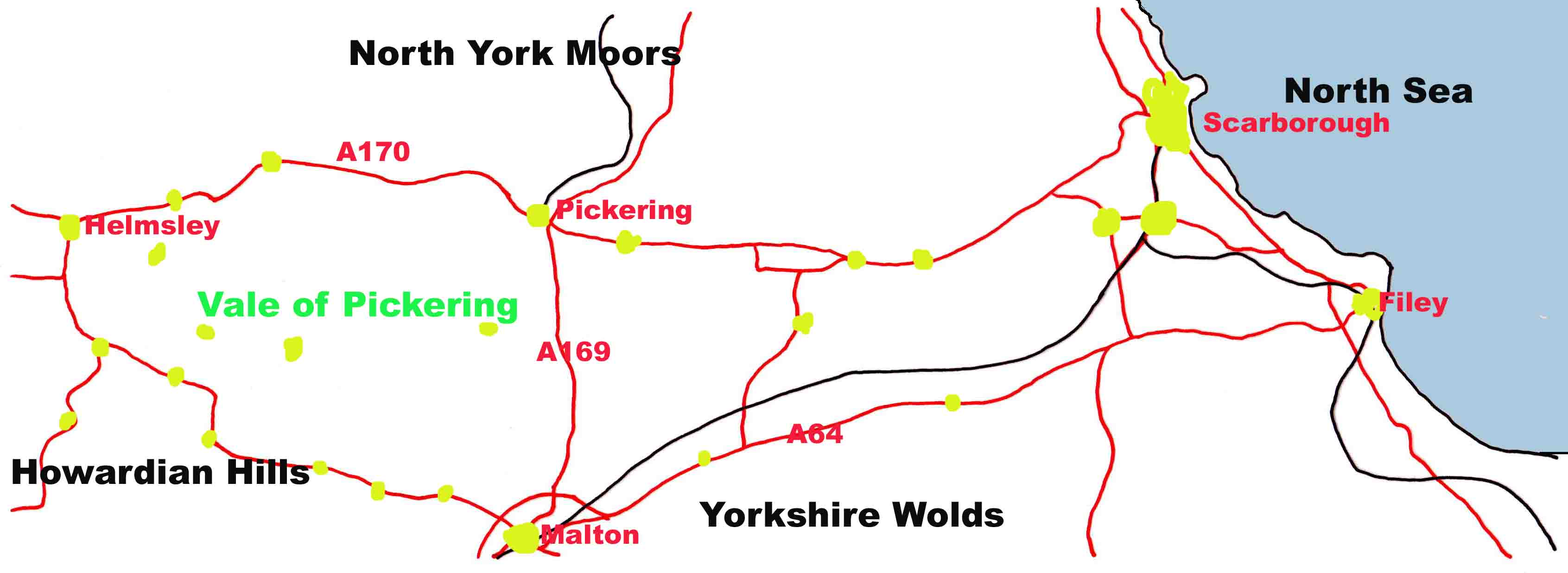 Image Notes Type:Scan Source: Author:Harkey Lodger Photographer:Harkey Lodger Copyright holder:Harkey Lodger Location: The Vale of Pickering Co-ordinates:Uk Time: Date: Sunday, 4 February Camera/scanner:Epson Stylus Photo RX520 Modifications: Rationale:Location of the Vale of Pickering Notes:Traced base map, scanned and added text and settlements. License:The author grants the use of the image under the GDFL and/or Creative Commons licenses.